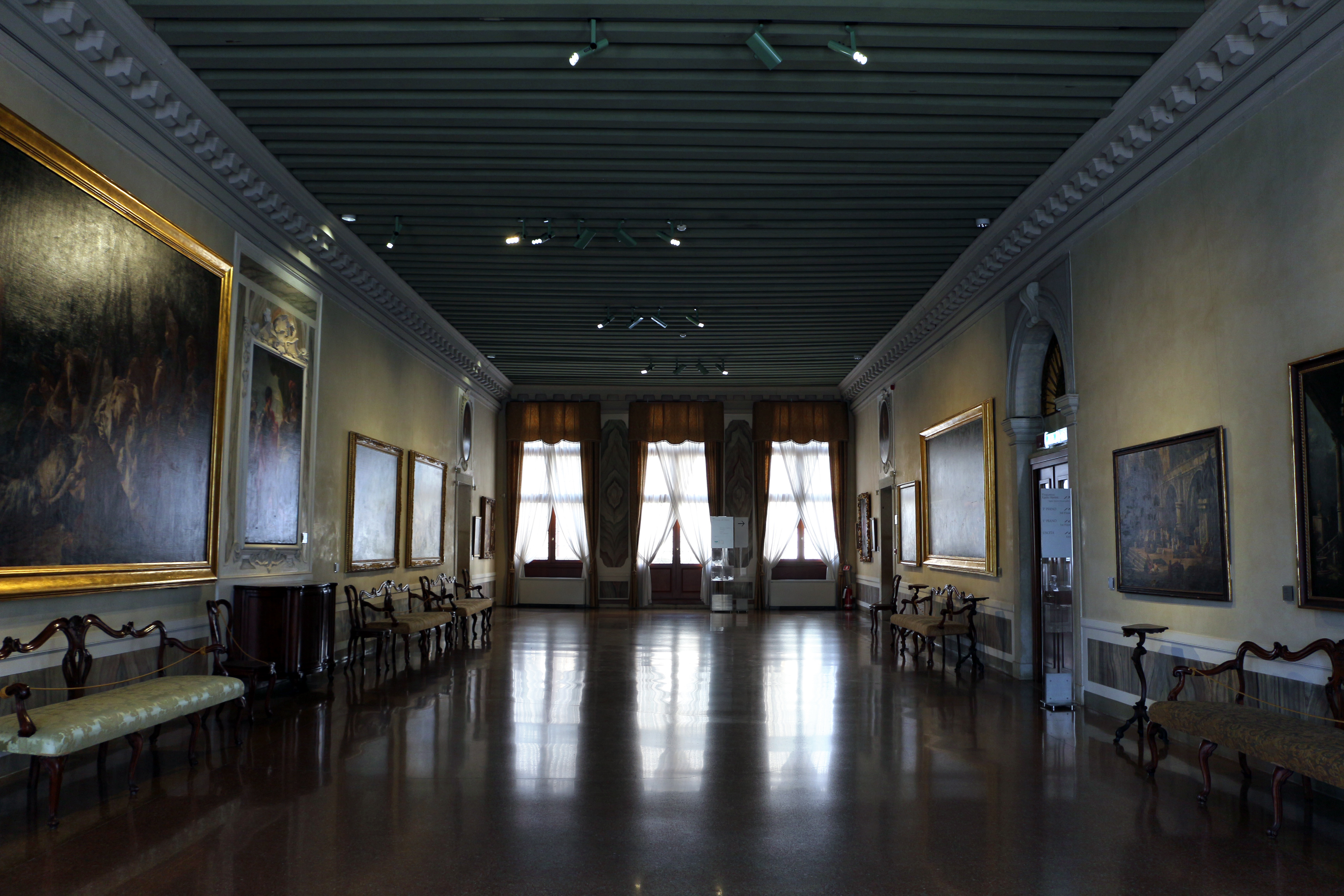 Ca' Rezzonico (Venice) - Interior